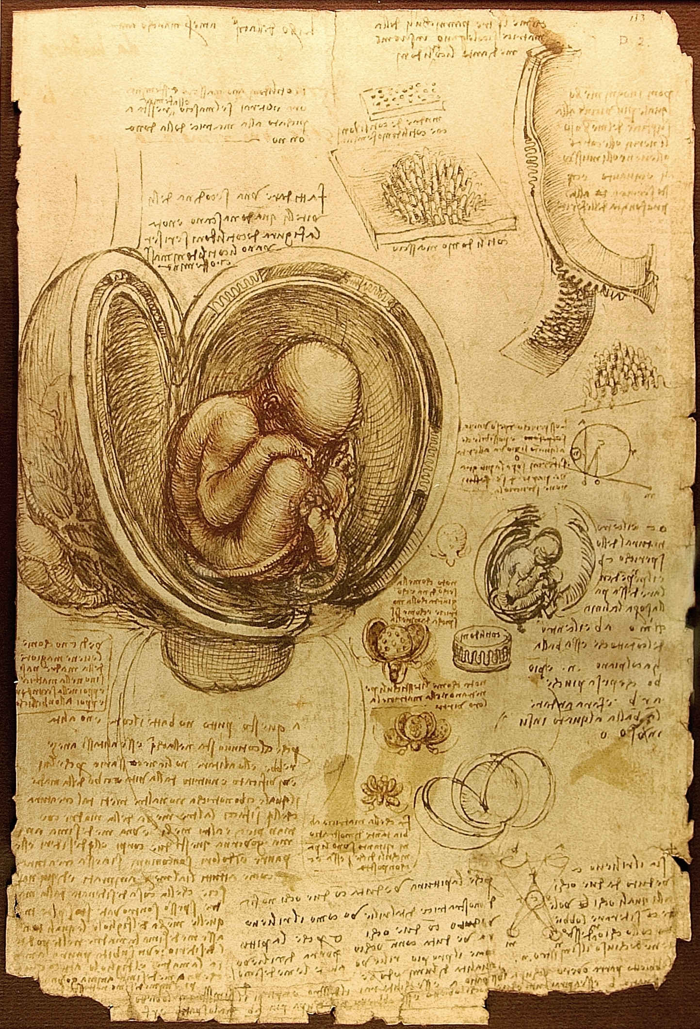 Studies of Embryos by Leonardo da Vinci (Pen over red chalk 1510-1513)